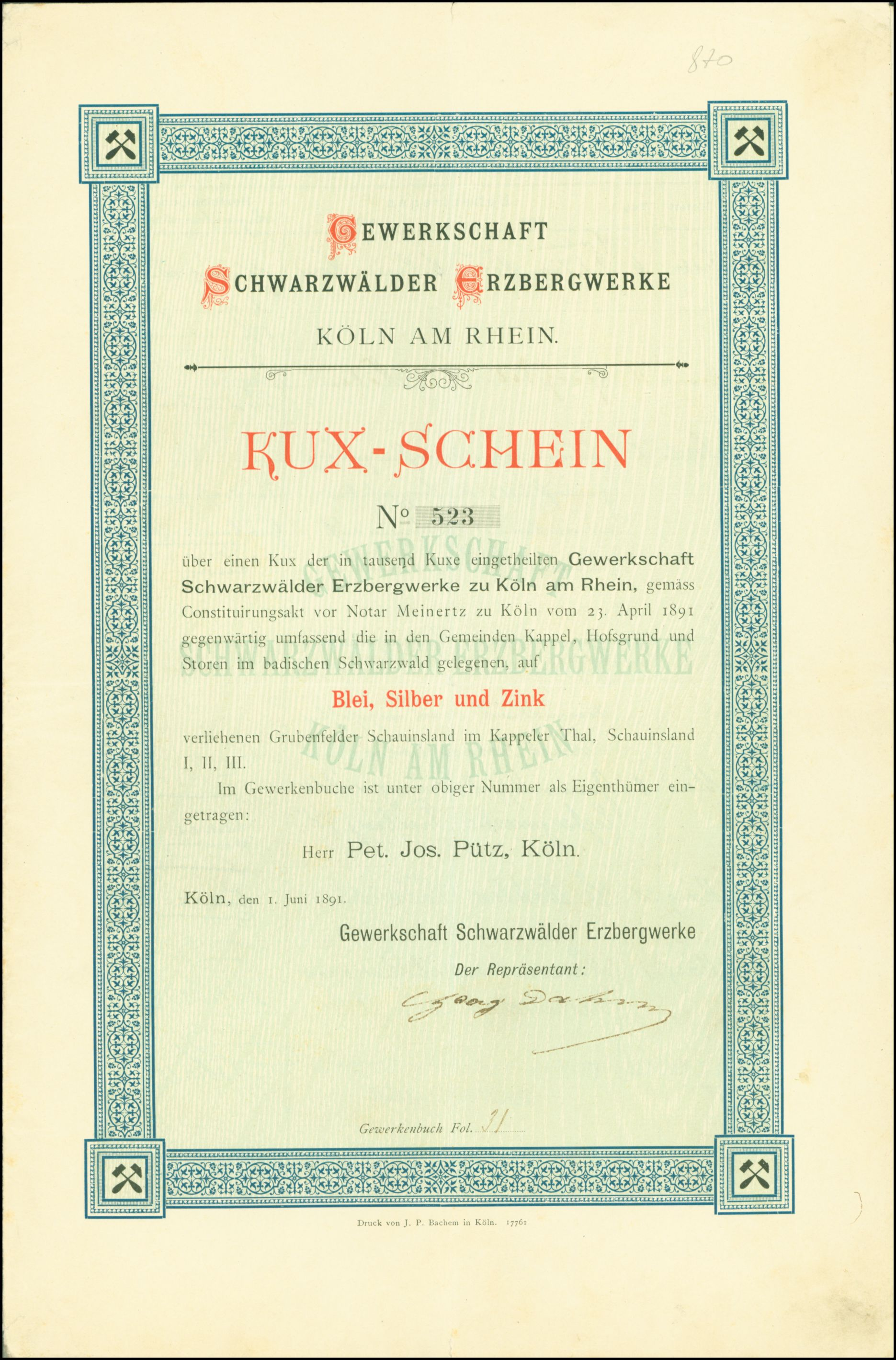 Mining share of the Gewerkschaft Schwarzwälder Erzbergwerke, issued 1. June 1891